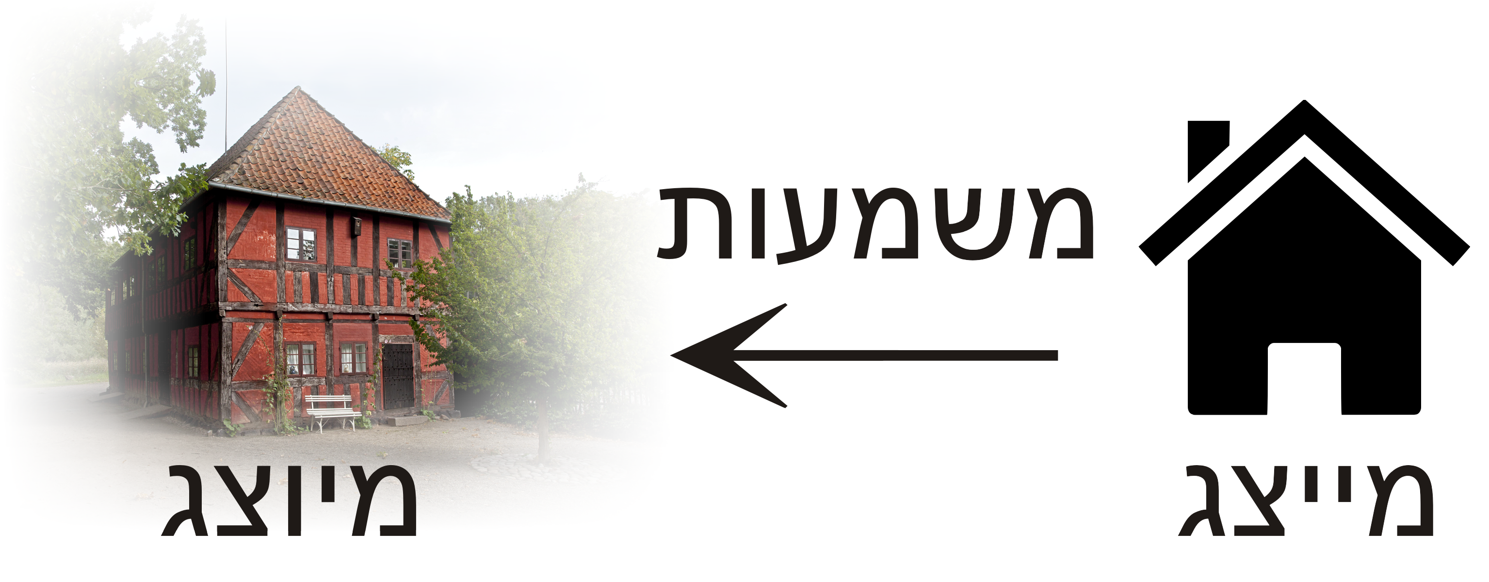 Illustration of sign relation